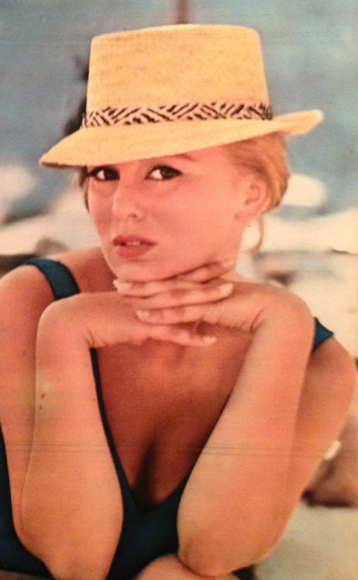 Italian actress Alessandra Panaro